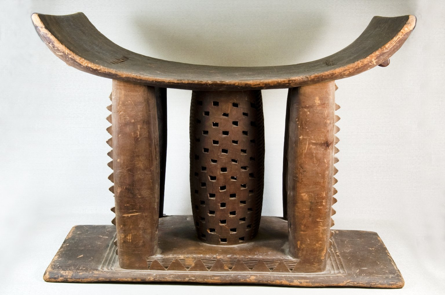 Curved seat supported by four rectangular uprights and a cylindrical form centered between them. Cylindrical form is hollow with pierced decoration in vertical panels alternating with low relief horizontal banding. Each of four uprights has two rows of triangular projections along outer edges. Condition: Good overall; abraded along top edges; large crack on back of center form.